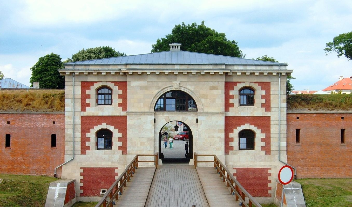 Renovated former Szczebrzeszyn Gate, in Old City of Zamość (view from south side)